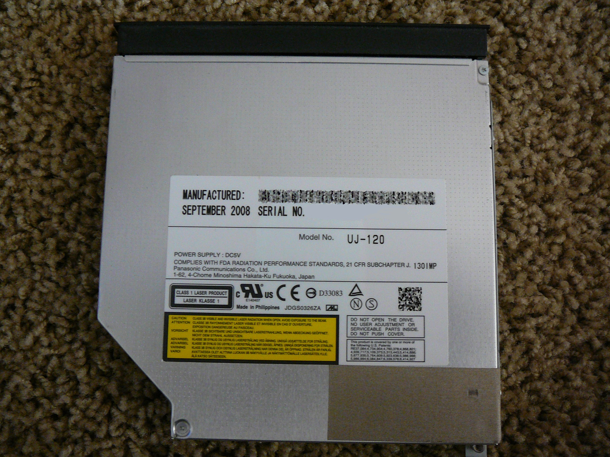 Panasonic BD-CMBUJ120 BD ROM Internal Notebook Drive